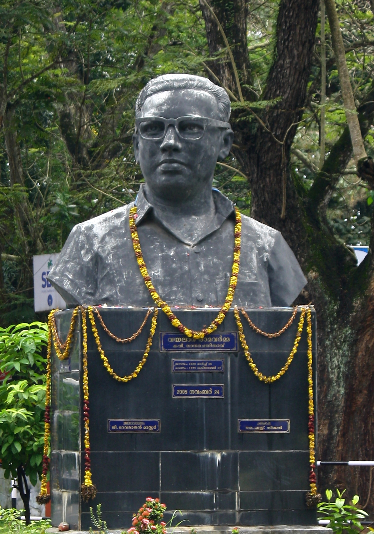 Bust of the poet Vayalar Ramavarma in Vellayambalam, Thiruvananthapuram.